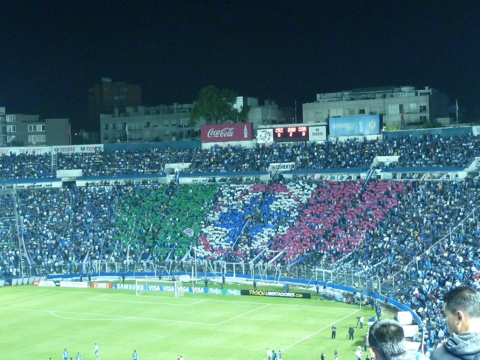 CruzAzul-Corinthians